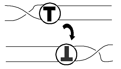 A depiction of a flype move.